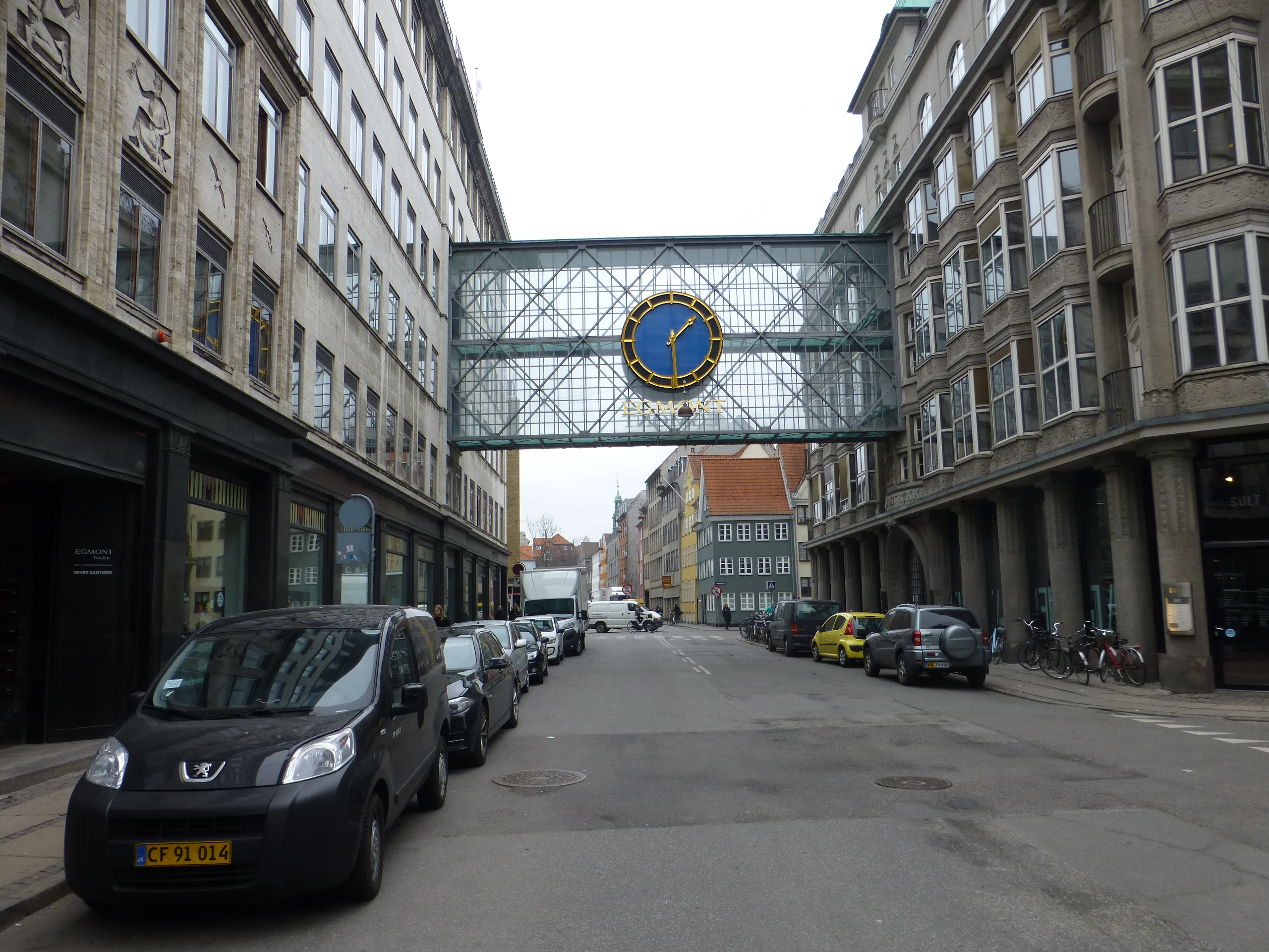 The street Vognmagergade in Indre By in Copenhagen.